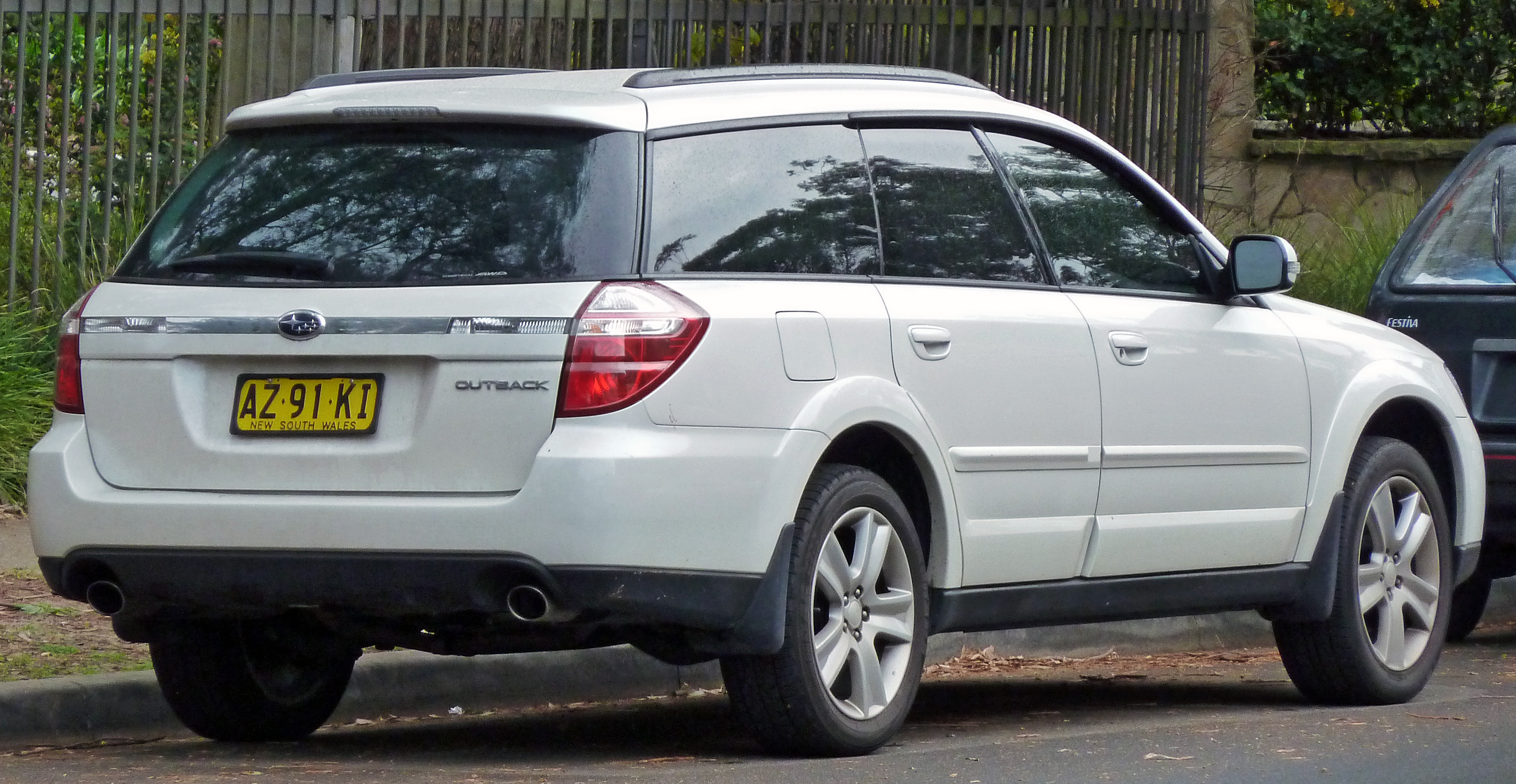 2008 Subaru Outback 2.5i station wagon. Photographed in Gymea, New South Wales, Australia.